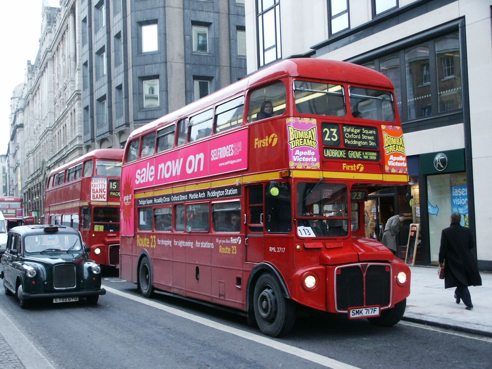 2717-SMK717F 310103 CPS